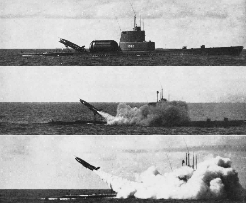 The U.S. Navy Gato-class submarine USS Tunny (SSG-282) launching a SSM-N-8 Regulus I missile.